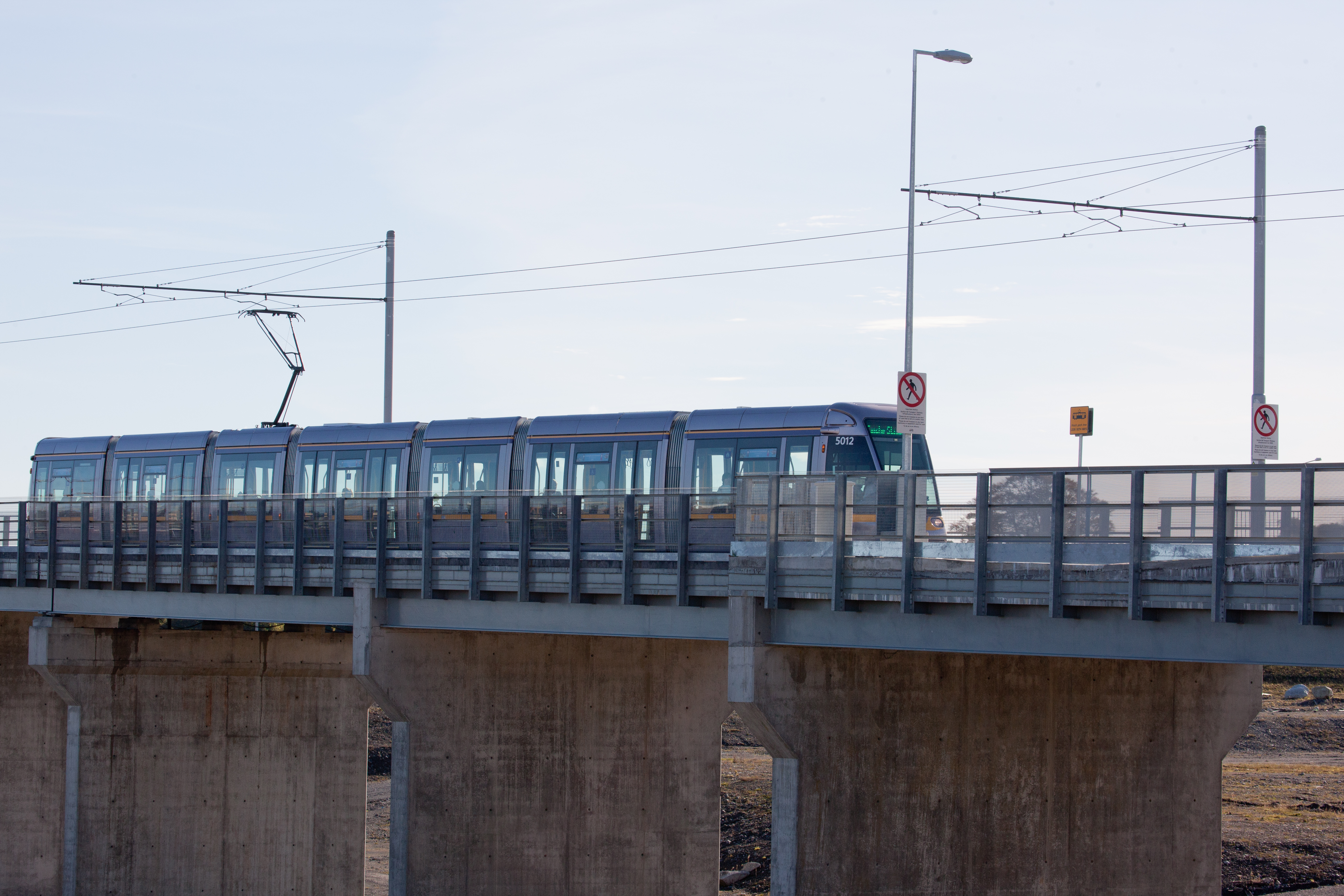 The New Luas Extension Has Been Criticised By Commuters Who Cannot Park. When it comes to transport in Dublin there have been two success stories in recent years. The DublinBike scheme is one and the other is the Luas tram system. Last Monday was a beautiful sunny day and after photographing the Dublin Marathon I decided that it would be a good idea the get the Luas to Cherrywood to see if I could take a few photographs. It was explained to me that the land is now tied up in NAMA and as a result it cannot be developed as a park and ride facility. Commuters were turned away from the new Cherrywood terminus on opening day as there were no parking facilities available. Cherrywood is one of Dublin's newest suburbs and as can be seen from my photographs it is partly developed and there are some very large empty spaces and believe it or not there is a shortage of parking spaces. Some time ago a decision was made to extend the Sandyford (Green) Luas line to Cherrywood and construction started in February 2007 and the line became operational this month (.October 2010) There are now two Luas stops in Cherrywood: Cherrywood and the terminus, Brides Glen.